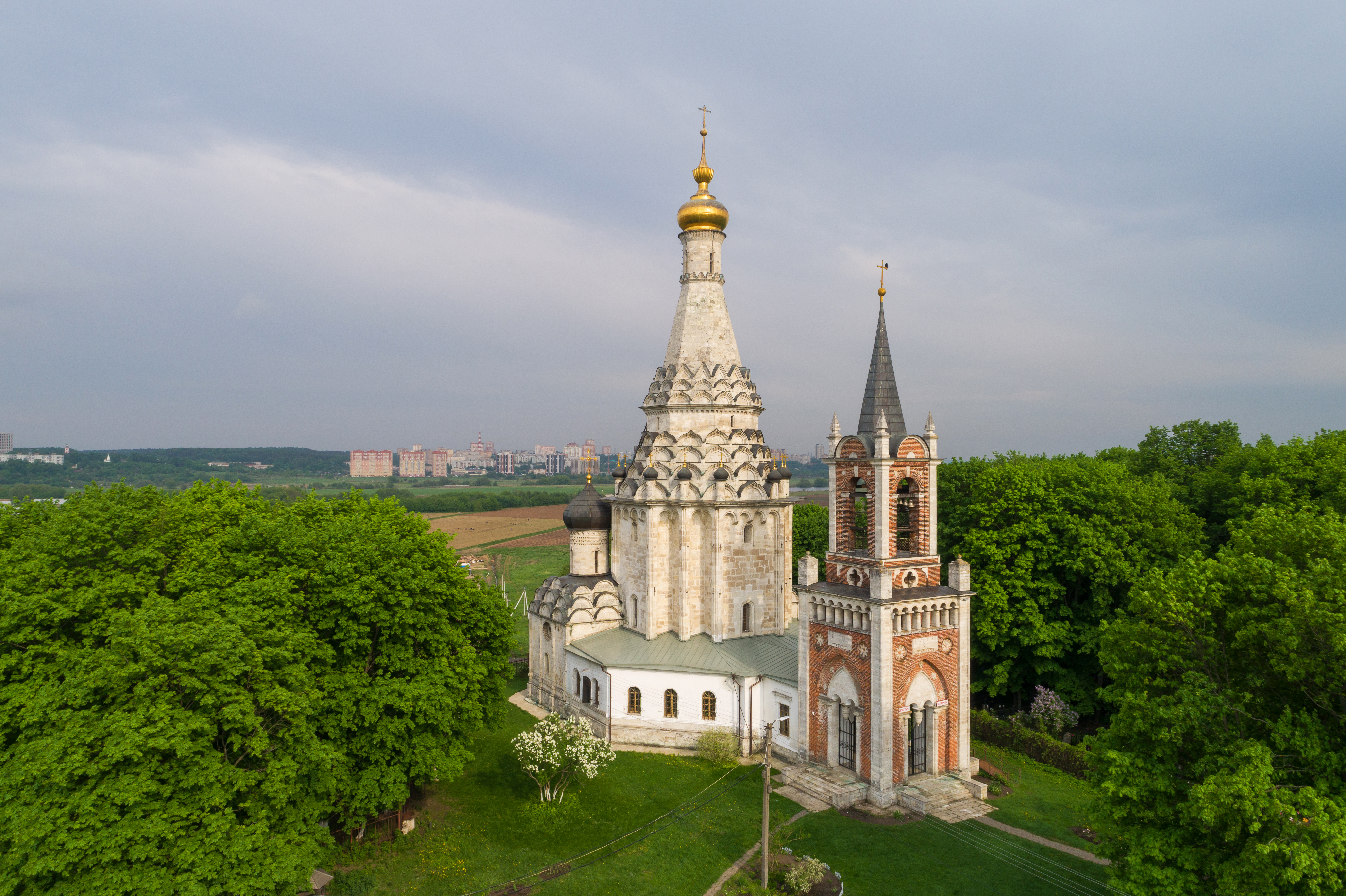 Transfiguration Church, Ostrov, Leninsky district, Moscow oblast